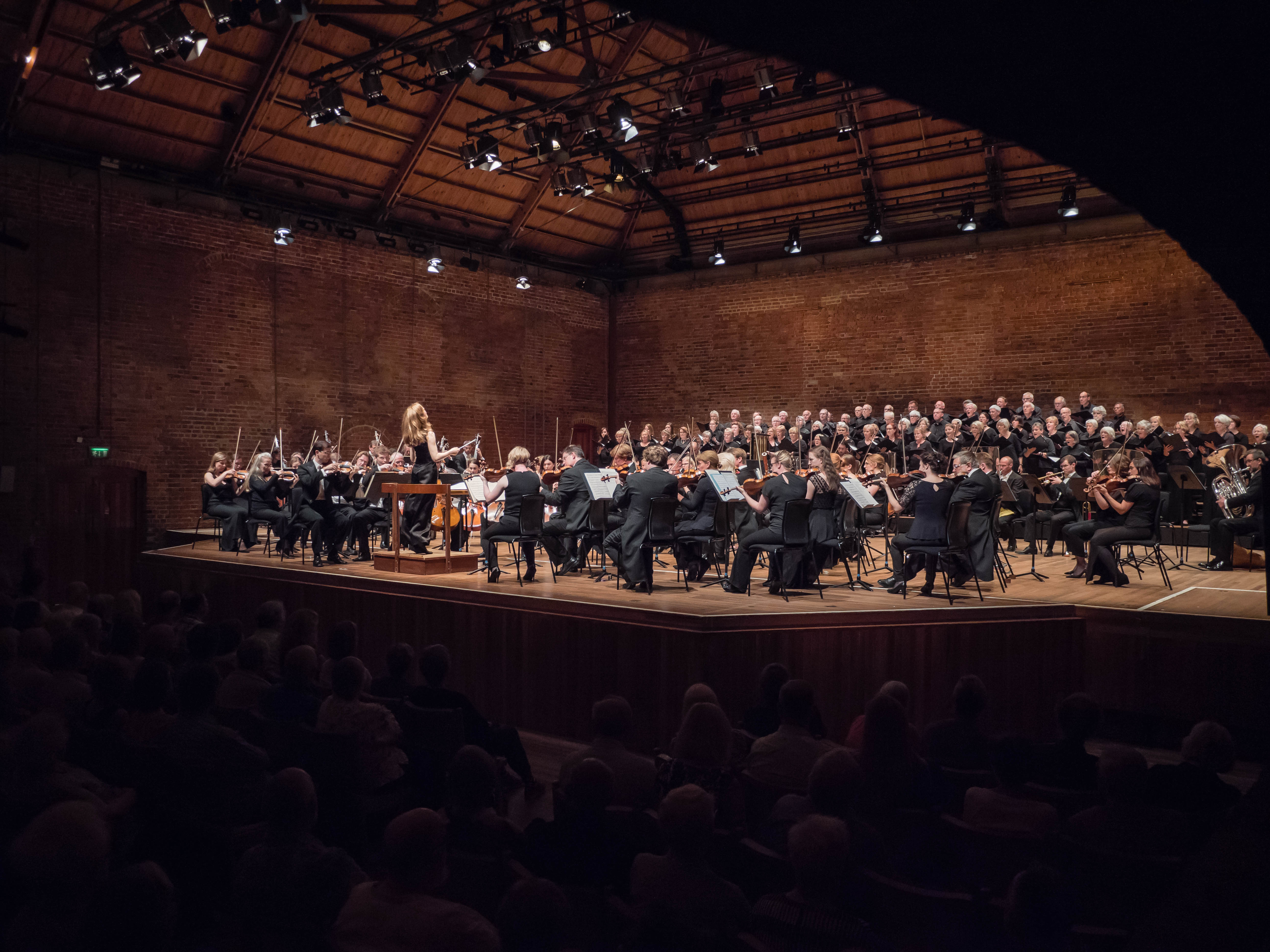 The performance celebrated 50 years of Snape Maltings Concert Hall by performing Britten's "The Building of the House" which was performed during the first Aldeburgh Festival there. Wikidata has entry Q7547298 with data related to this item.